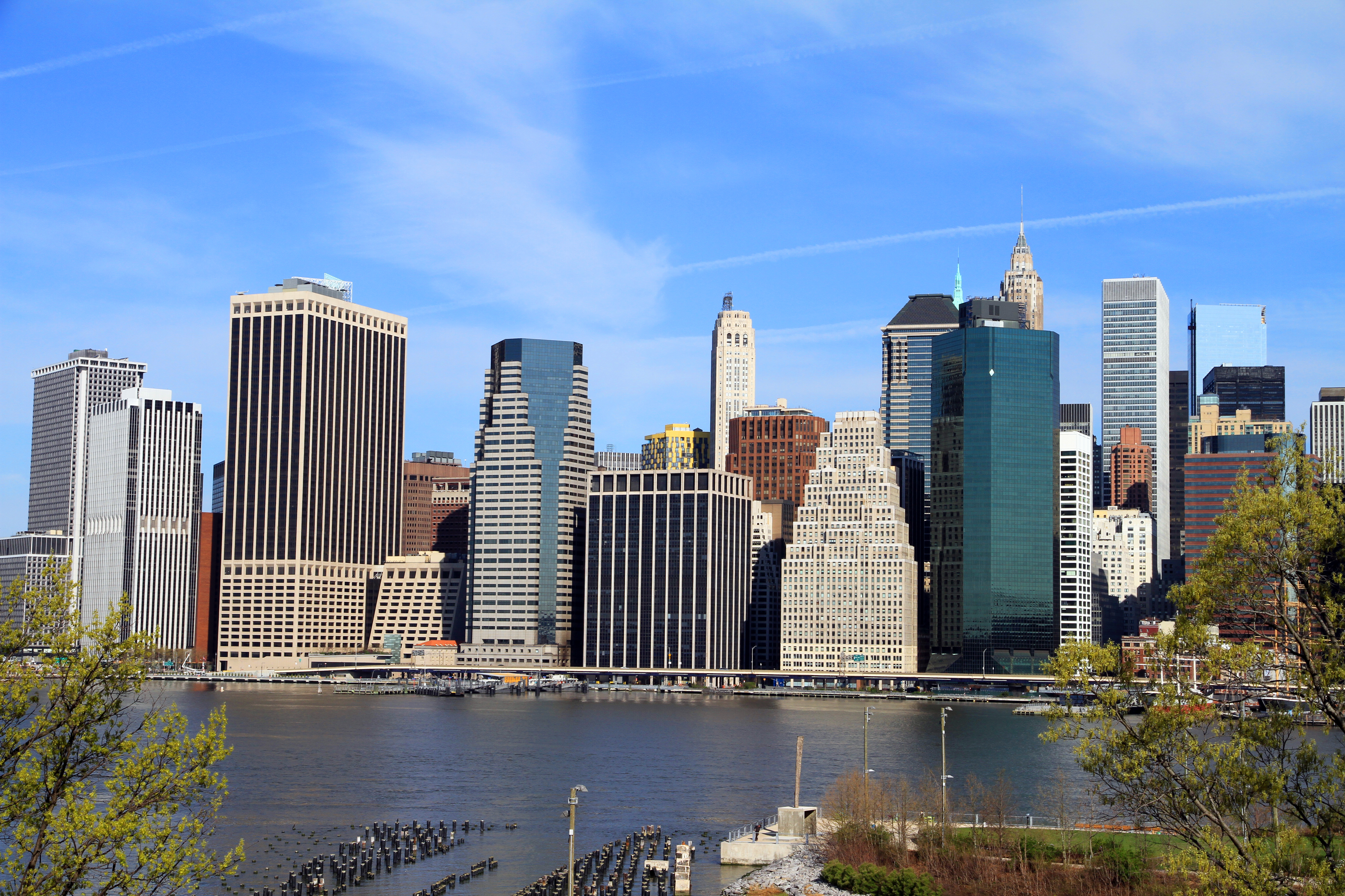 Lower Manhattan from Brooklyn Heights